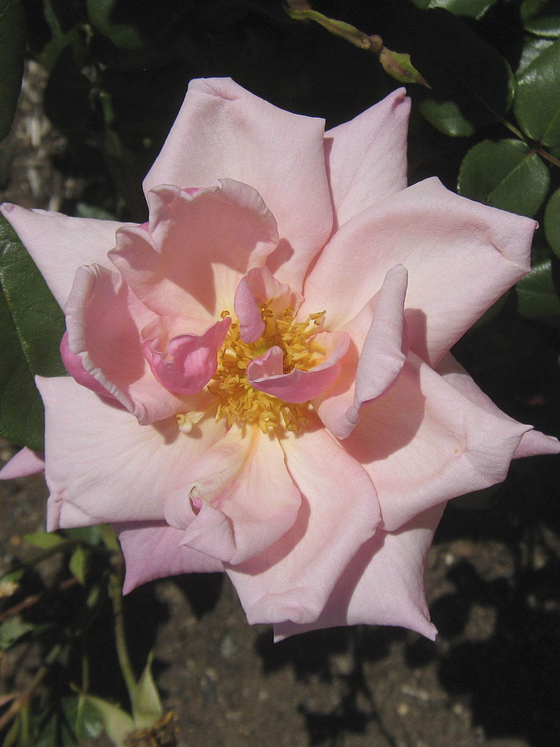 Rose 'John CM Mensing', Hybrid Tea sport of 'Ophelia' discovered by Eveleens 1924; photographed in the Nieuwesteeg Heritage Rose Garden, Maddingley Park, Bacchus Marsh, Victoria